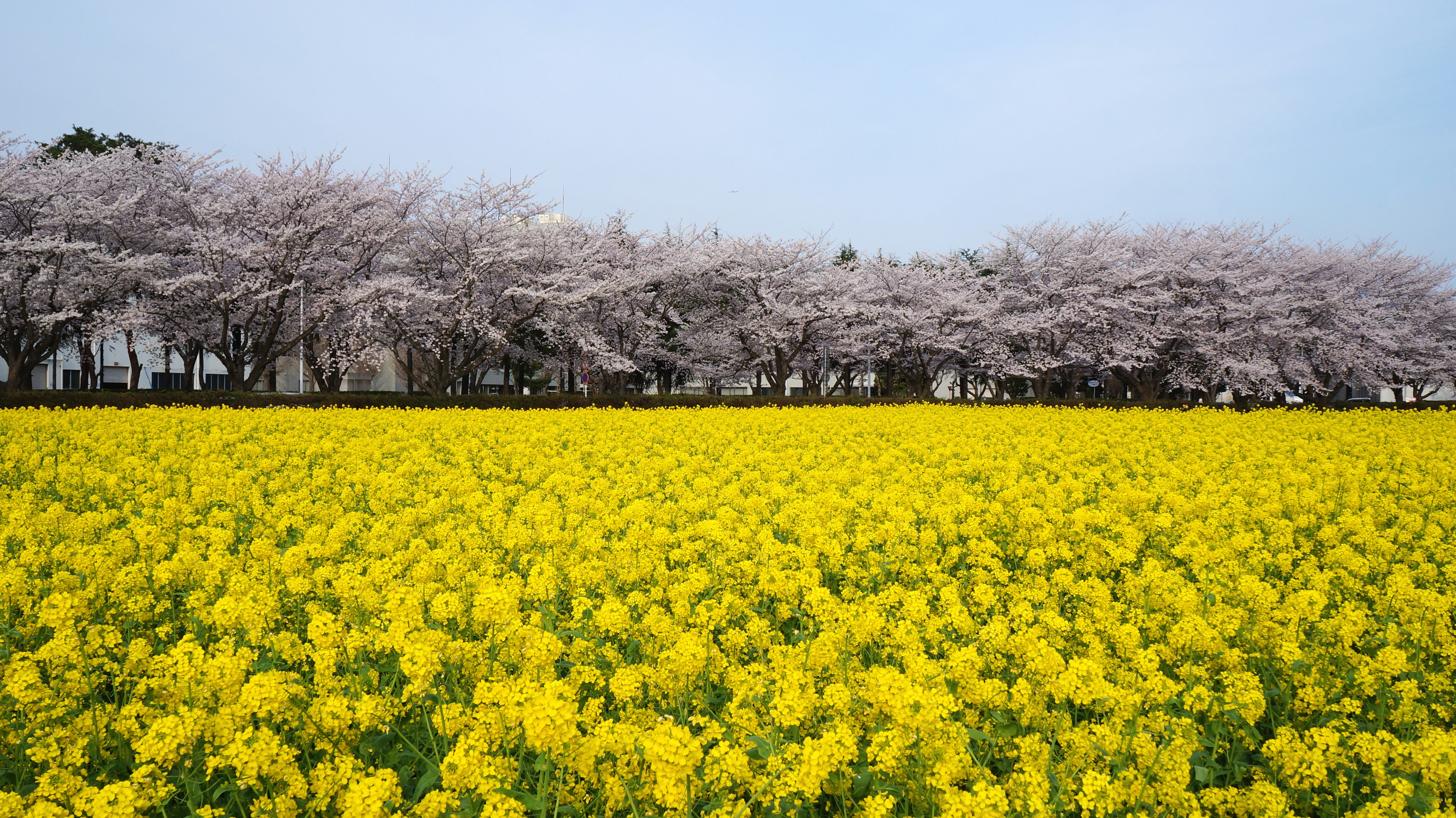 Cherry blossoms and Tenderstem broccoli at National Agriculture and Bio-oriented Research Organization, TSUKUBA AGRICULTURE RESEARCH HALL, 3-chōme, Kannnondai, Tsukuba, Ibaraki, Japan.